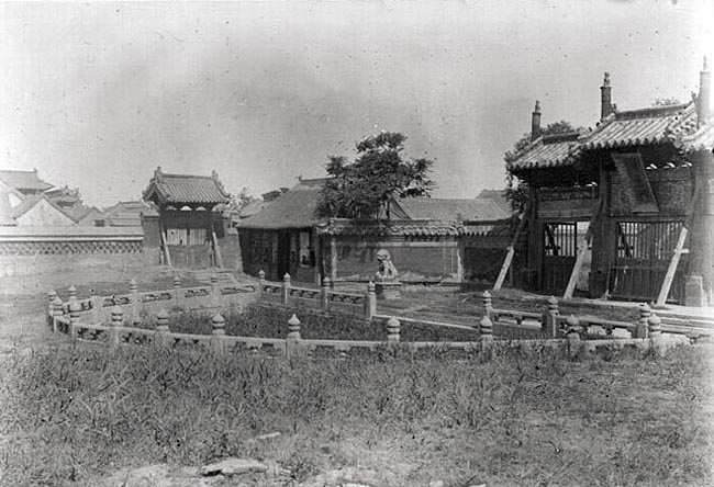 Confucius Temple of Kaifeng